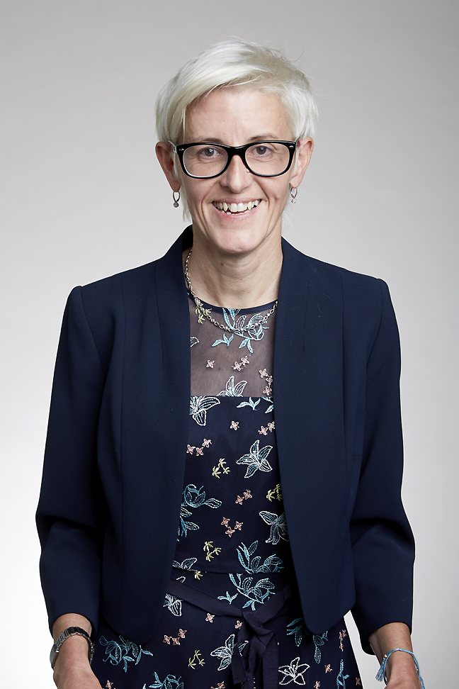 Anne Neville (born 1970) OBE FRS FRSE FREng FIMechE is the Royal Academy of Engineering Chair in emerging technologies and professor of Tribology and Surface engineering at the University of Leeds. Attribution: The Royal Society